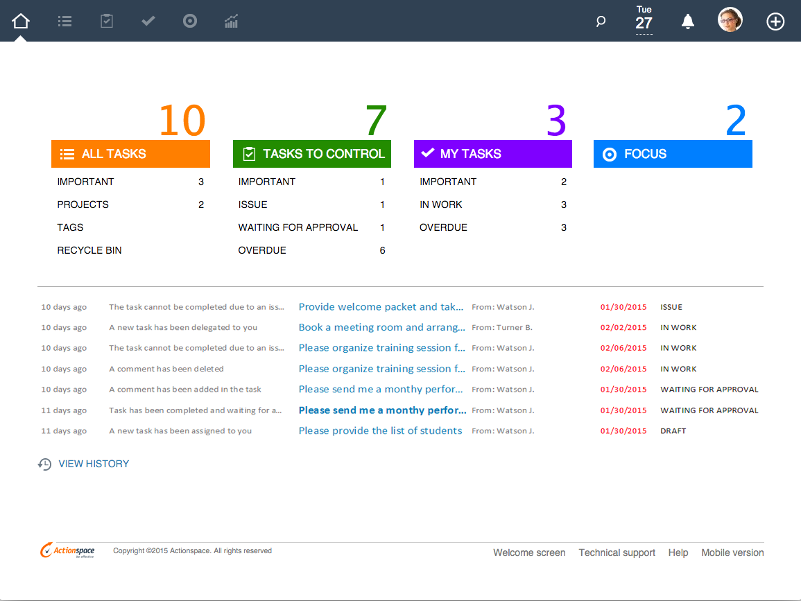 Screenshot of Actionspace dashboard